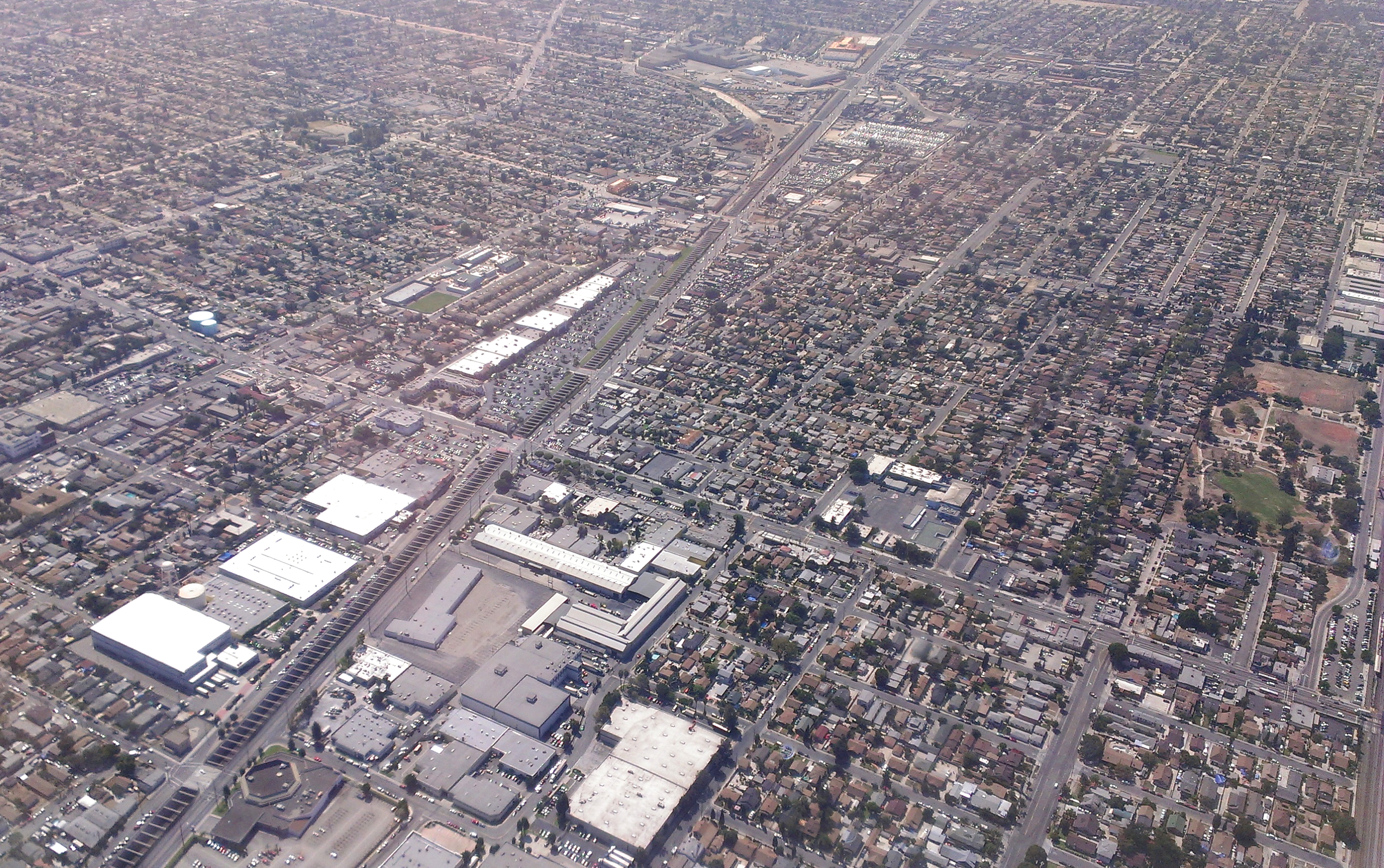 The diagonal trench is the Alameda Corridor railroad